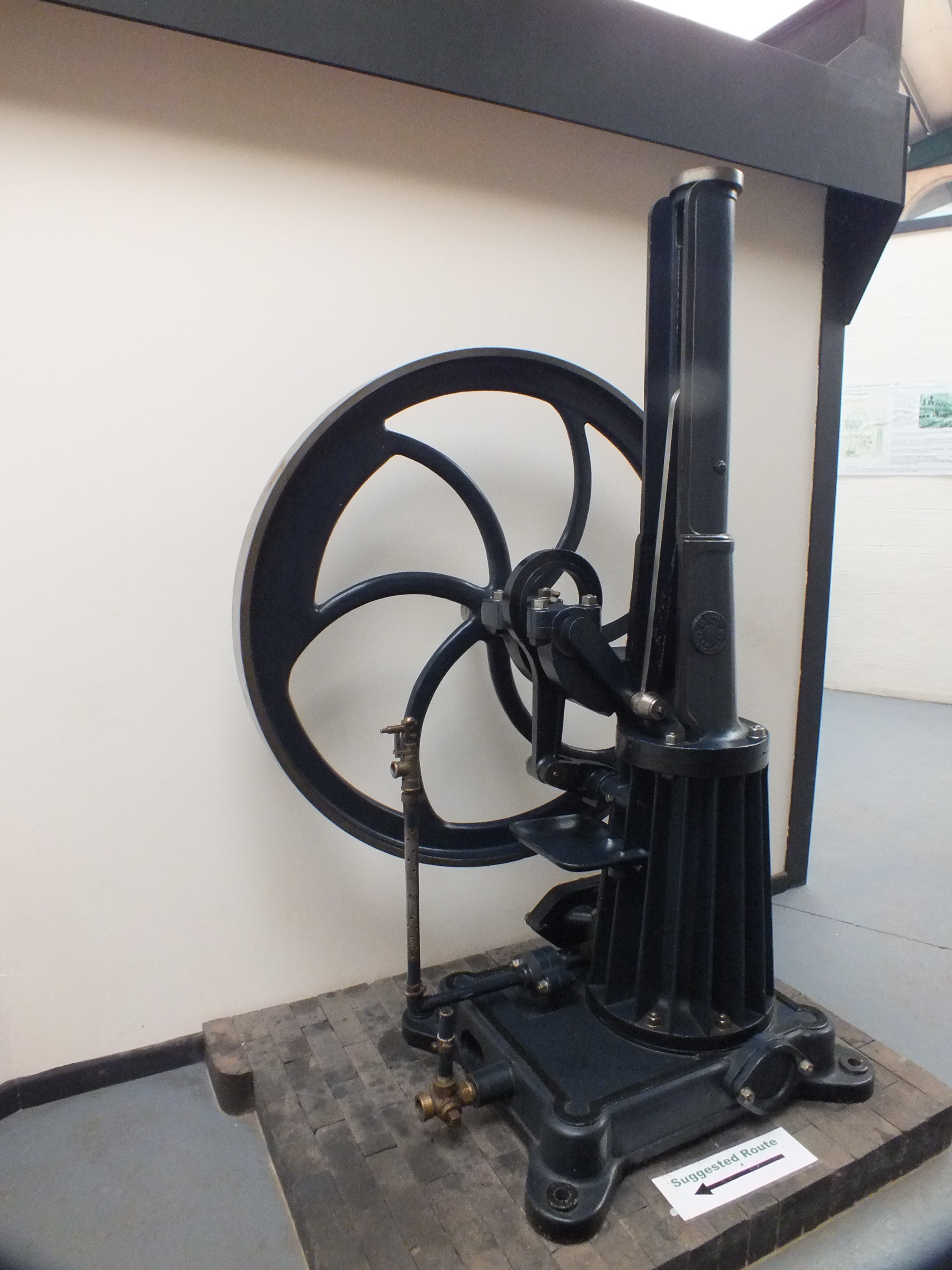 The Anson Engine Museum in Poynton, Cheshire collection. 1870 Bisschop Gas Engine- about 2000 were built, 900 to drive church organs. They used a crank instead of a rack and pinion, and were so simple 'that a child could mind them' according to contemporary publicity. It used spool valves- and rubber flap valves. Ignition was from a naked pilot light, which had it own pilot light in case it was extinguished by the stroke. By JE Andrews of Stockport